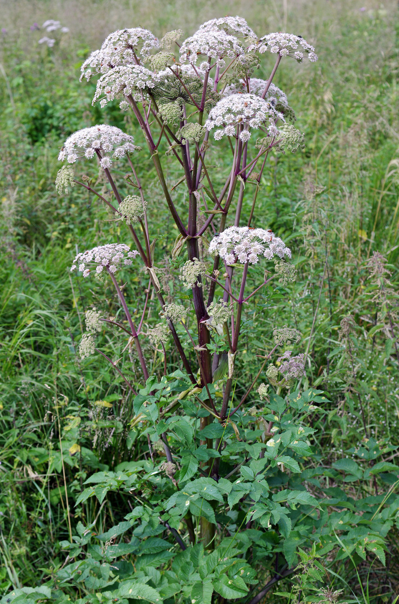 Habitus of flowering Wild Angelica, Angelica sylvestris (Apiaceae).